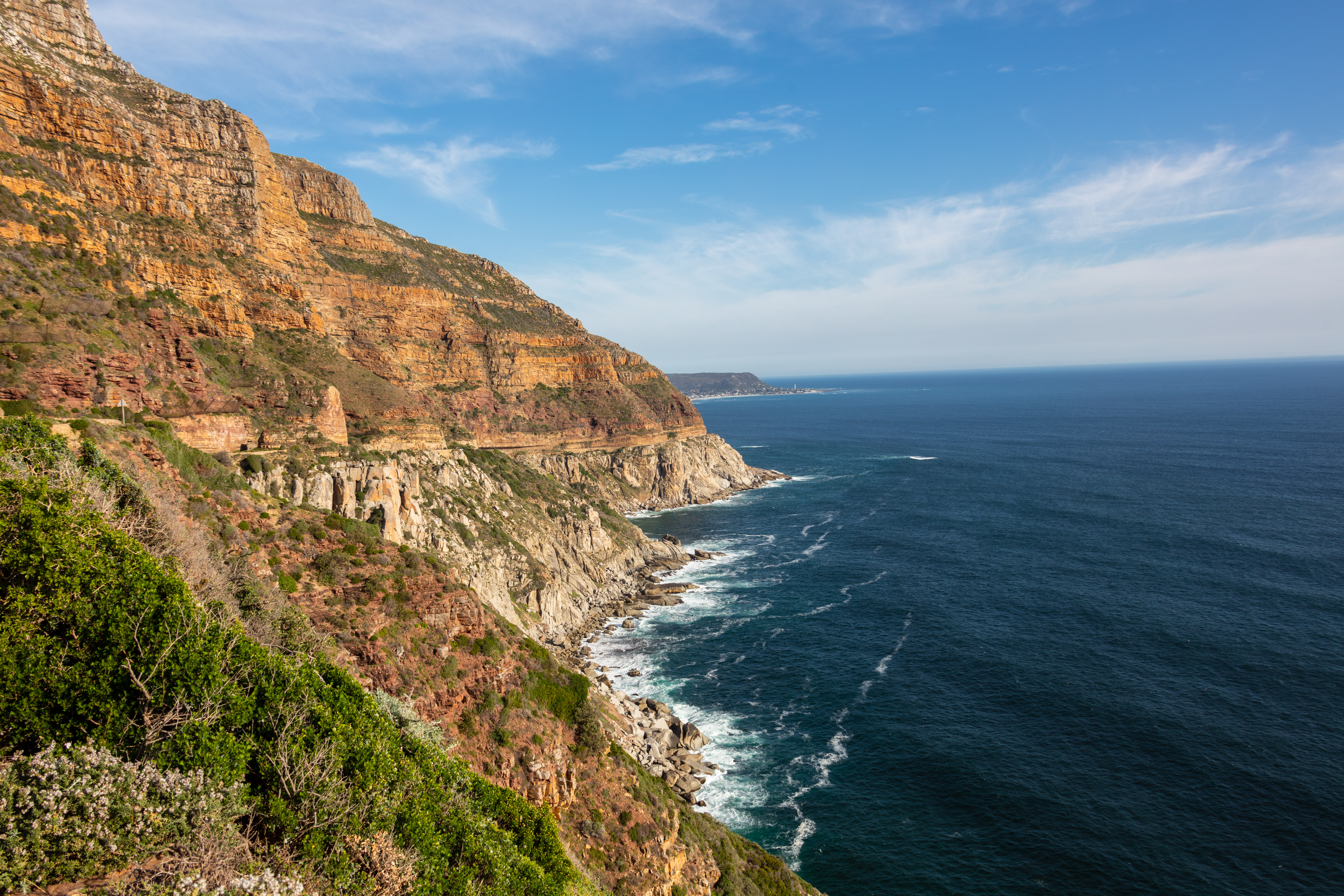 Chapman's Peak Drive, South Africa